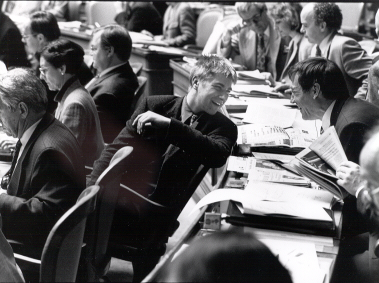 Toni Brunner, Swiss politician